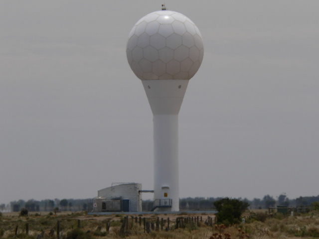 The Bureau of Meteorology Buckland Park High resolution Doppler weather radar at Port Gawler, South Australia